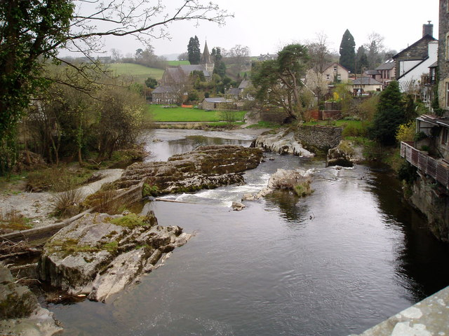 The Wye at Rhaeadr Waterfalls on the river Wye south of the bridge at Rhaeadr - the name Rhaeadr means "waterfall".